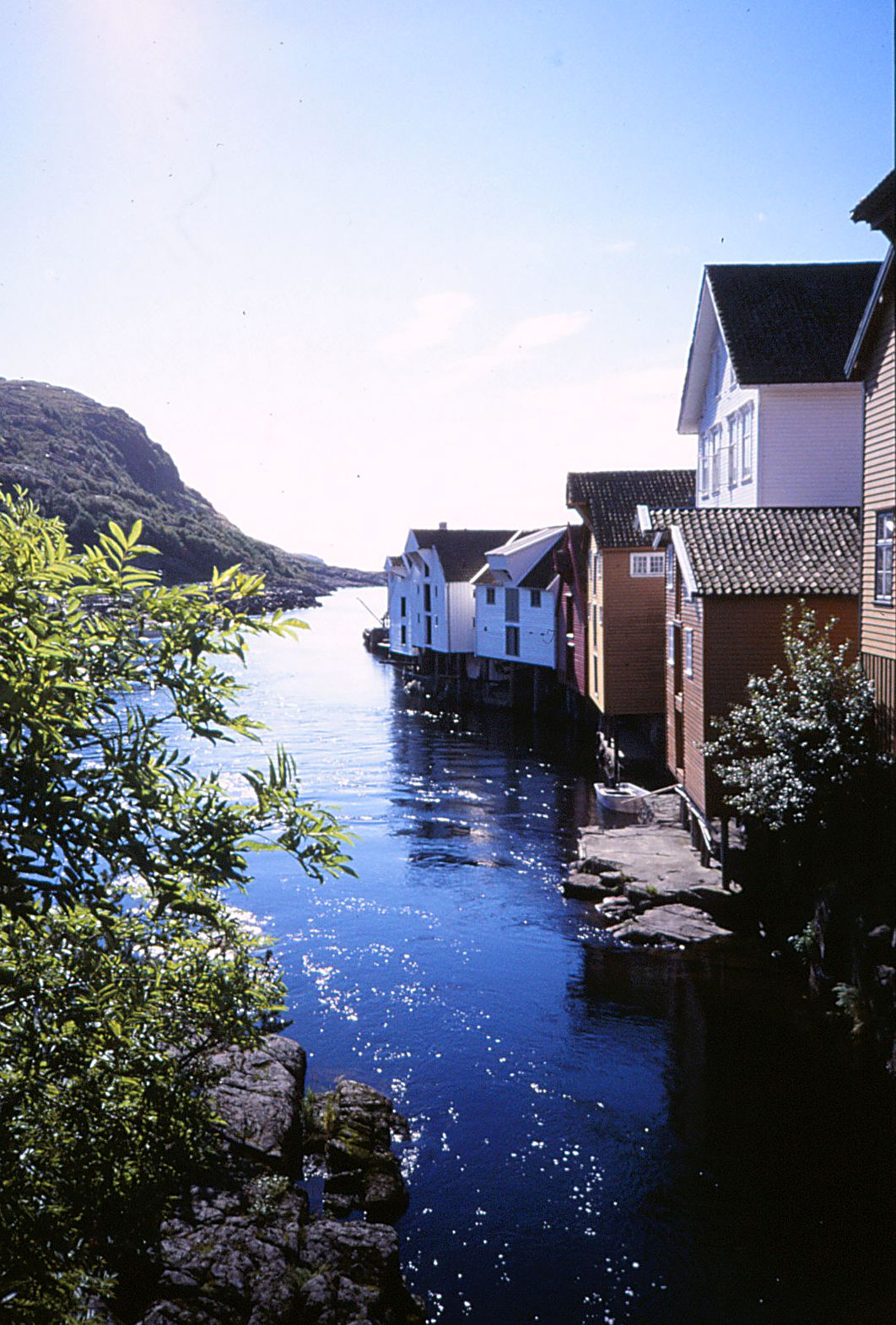 Sogndalstrand in Sokndal, Norway. August 31, 2006.